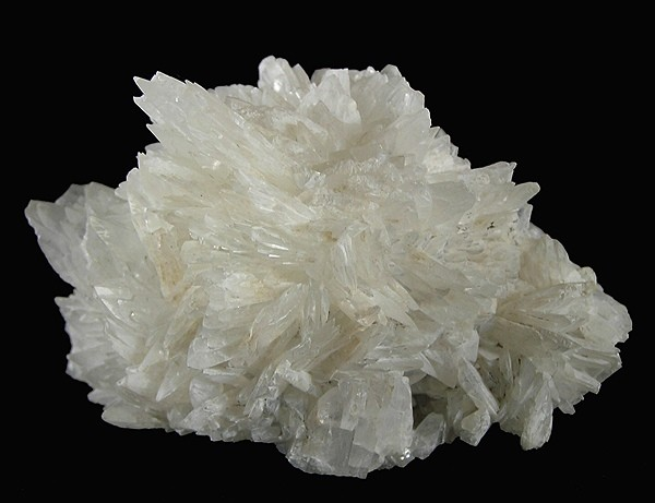 Colemanite Locality: Boron, Kramer District, Kern County, California, USA (Locality at ) Size: 6.9 x 5.4 x 5.4 cm. This is a 360 degree knob, complete all around (with the contact on the bottom) of milky, translucent blades of colemanite, an evaporite mineral well-known from this locality. Ex. Minette Collection.